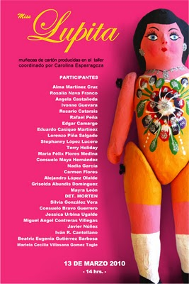 Poster announcing exhibition of the Miss Lupita project